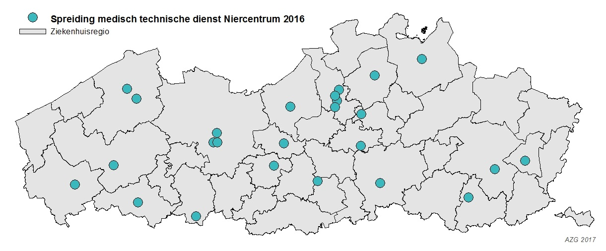 Geographical distribution of medico-technical services kidney center in 2016 in Flanders